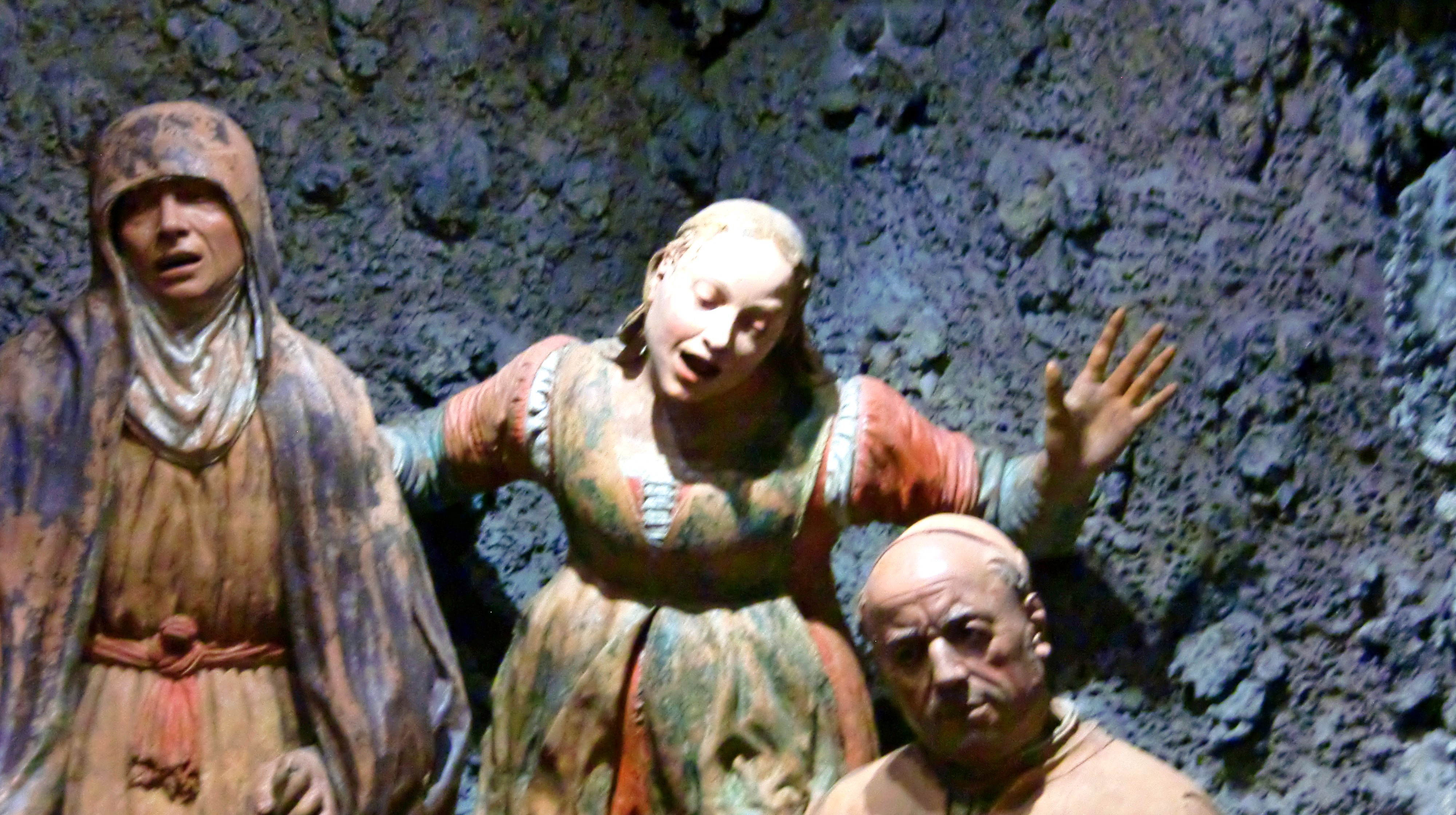 Guido Mazzoni, Lamentation of Christ (detail), terracotta, 1476-77 ca., Chiesa di Santa Maria degli Angeli, Busseto (Parma), Italy